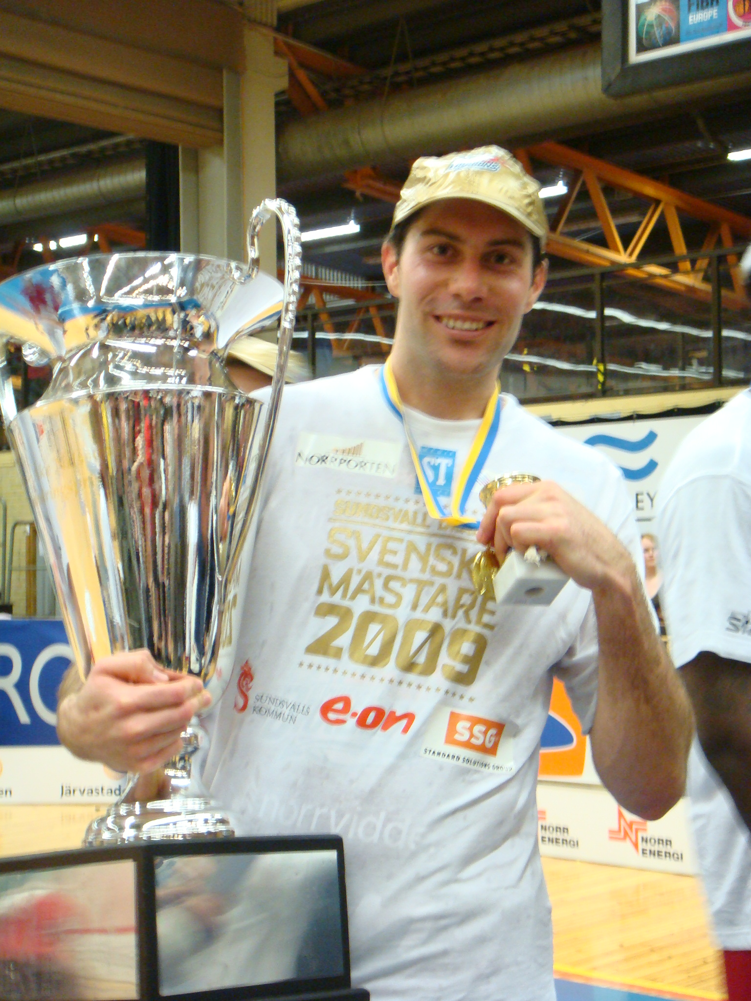 Liam Rush celebrates his first championship with Sundsvall Dragons